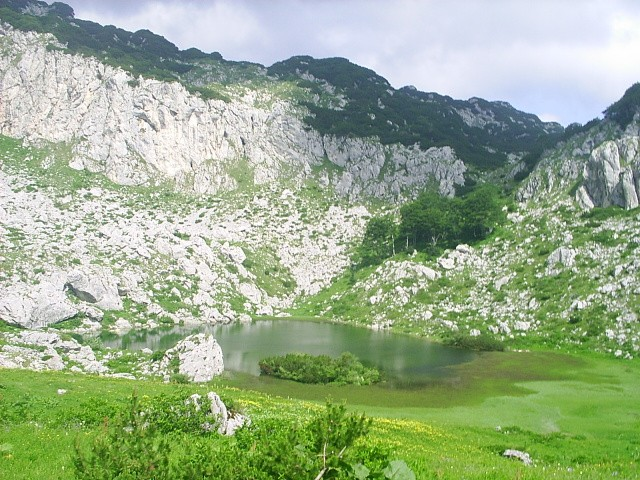 Crno jezero lake in Treskavica, Bosnia and Herzegovina